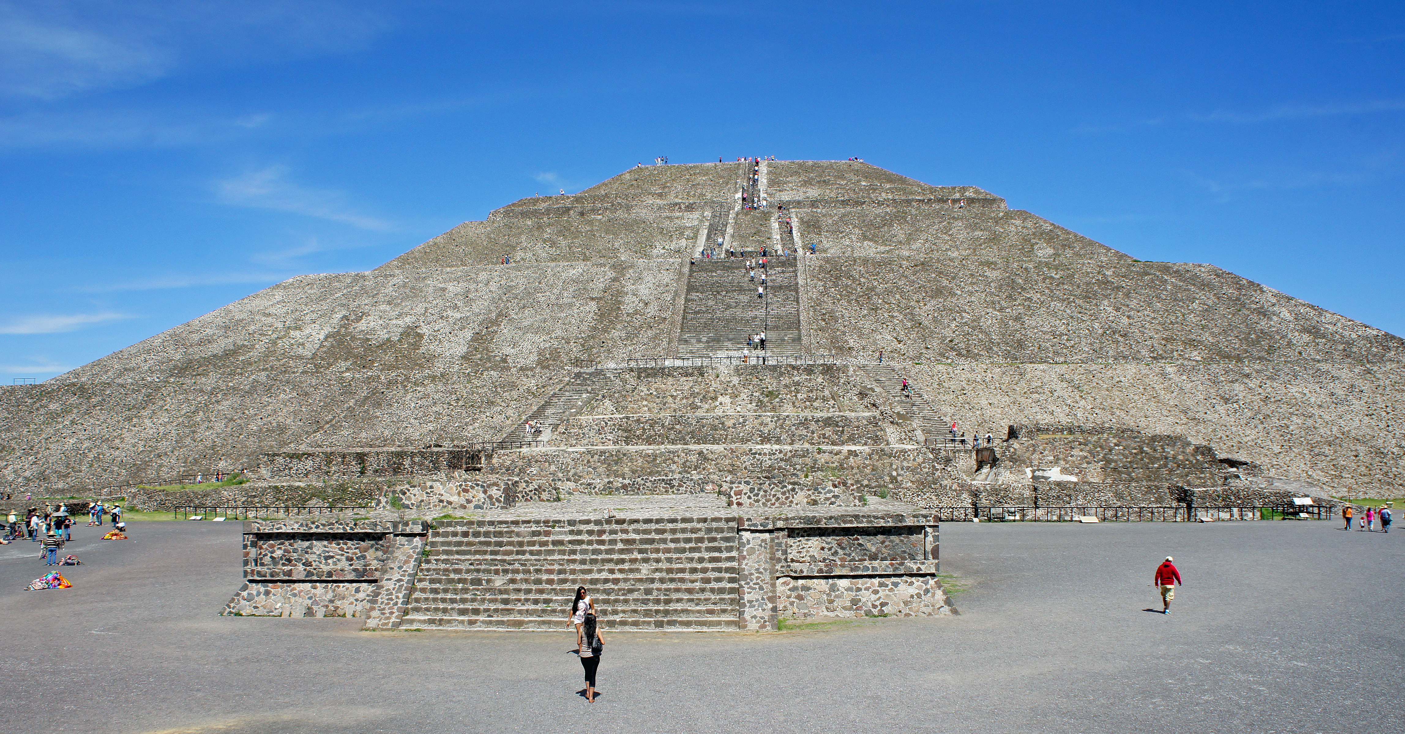 Panoramic view of the pyramid of the Sun, Teotihuacan, Mexico.